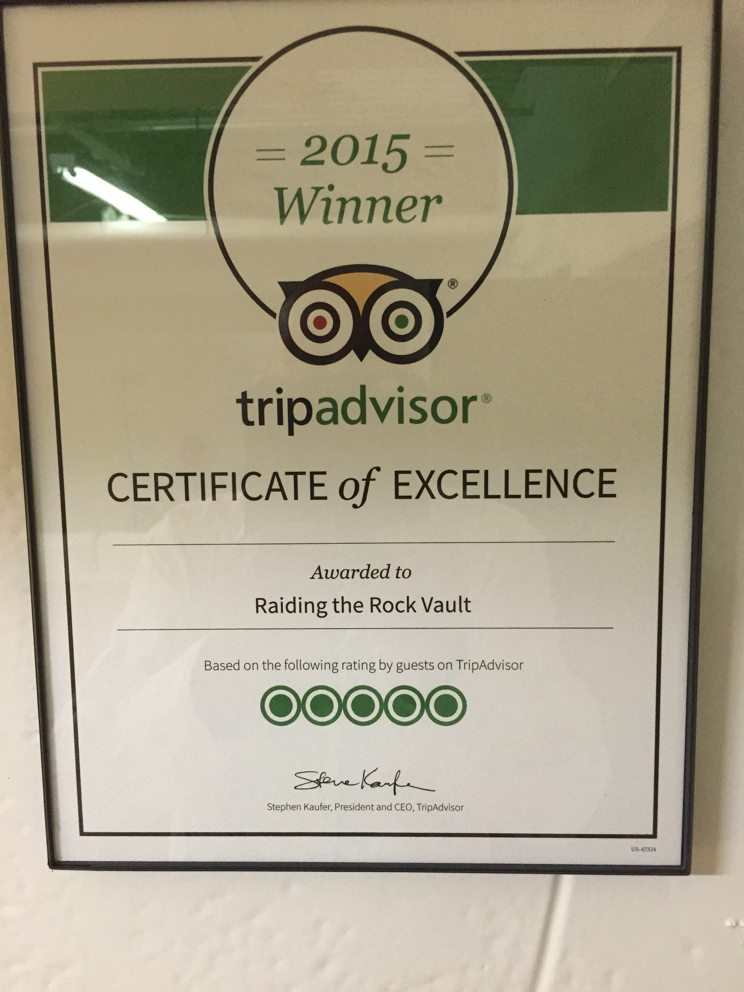 Award to 'Raiding The Rock Vault' for 2015, giving them a 'Certificate Of Excellence' award thanks to the guests of Tripadvisors.